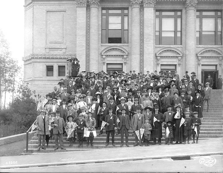 On verso of image: Royal Arcanum 6/23 Subjects (LCSH): Royal Arcanum; Portraits, Group--Washington (State)--Seattle; Alaska-Yukon-Pacific Exposition (1909 : Seattle, Wash.); Exhibitions--Washington (State)--Seattle